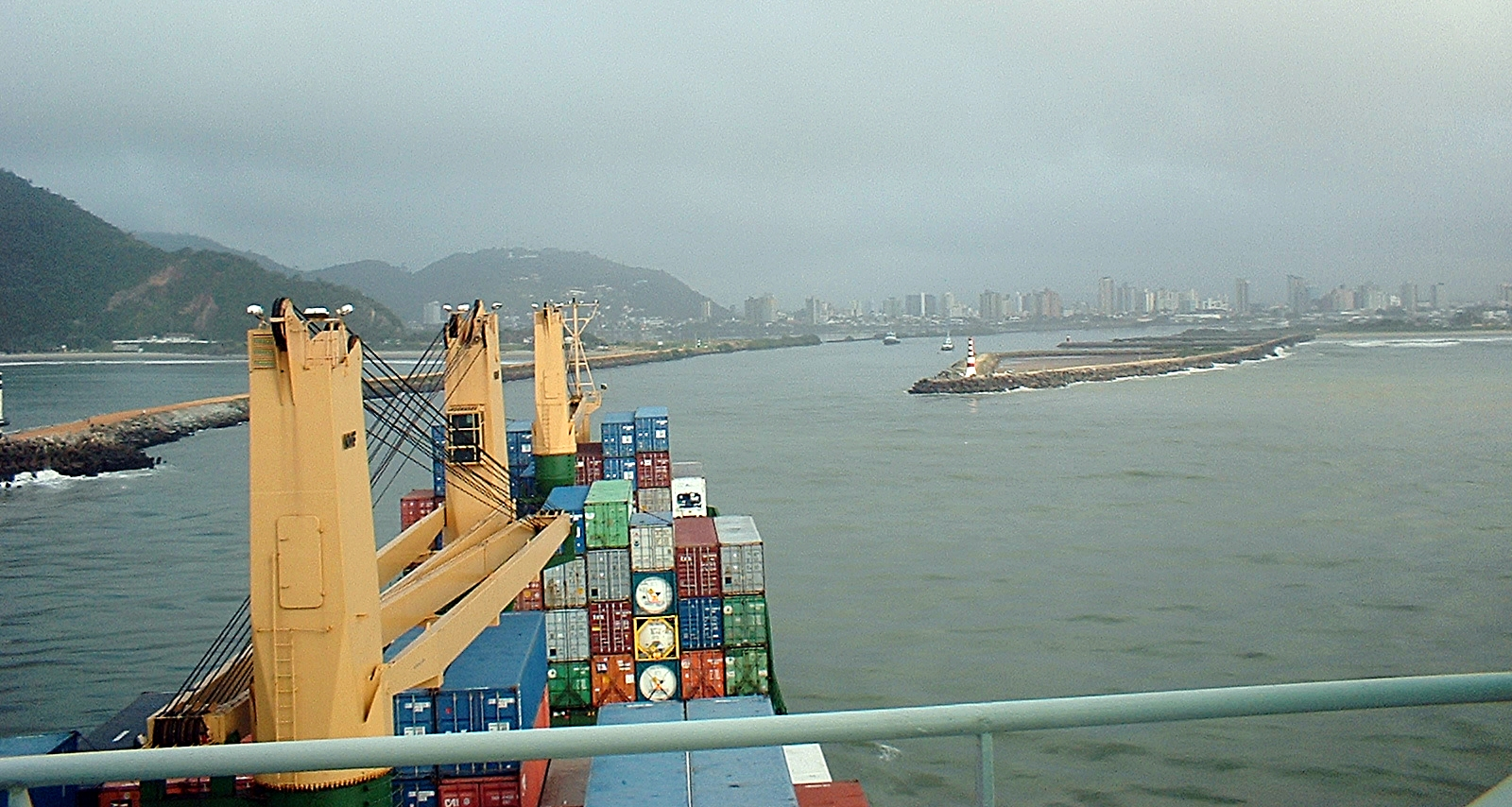 Port entrance at the mouth of the itajai river